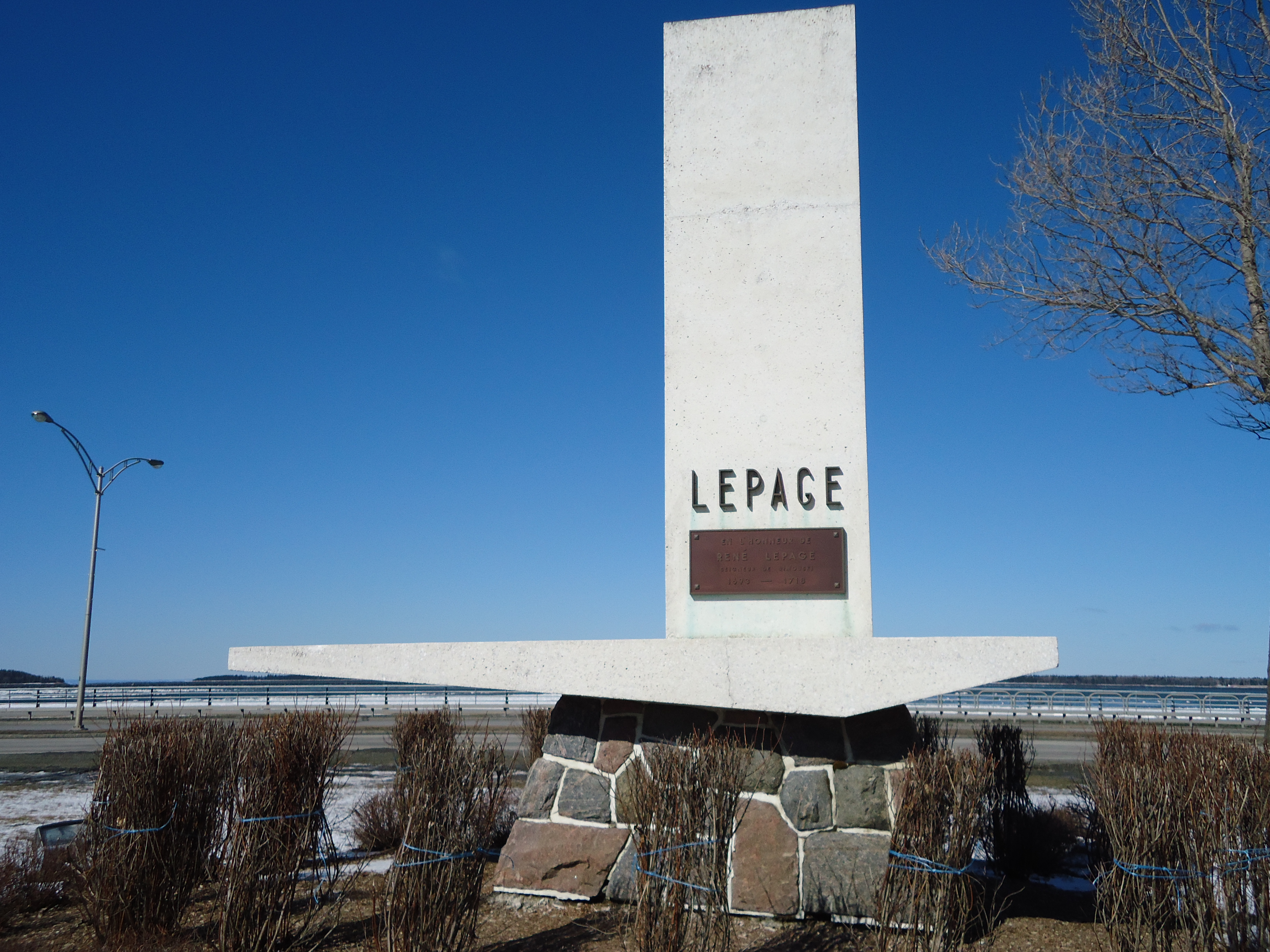 René Lepage de Sainte-Claire's monument in Rimouski